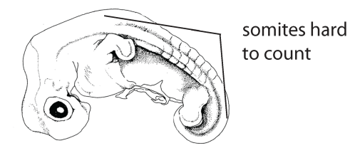 Standard Event System character depiction